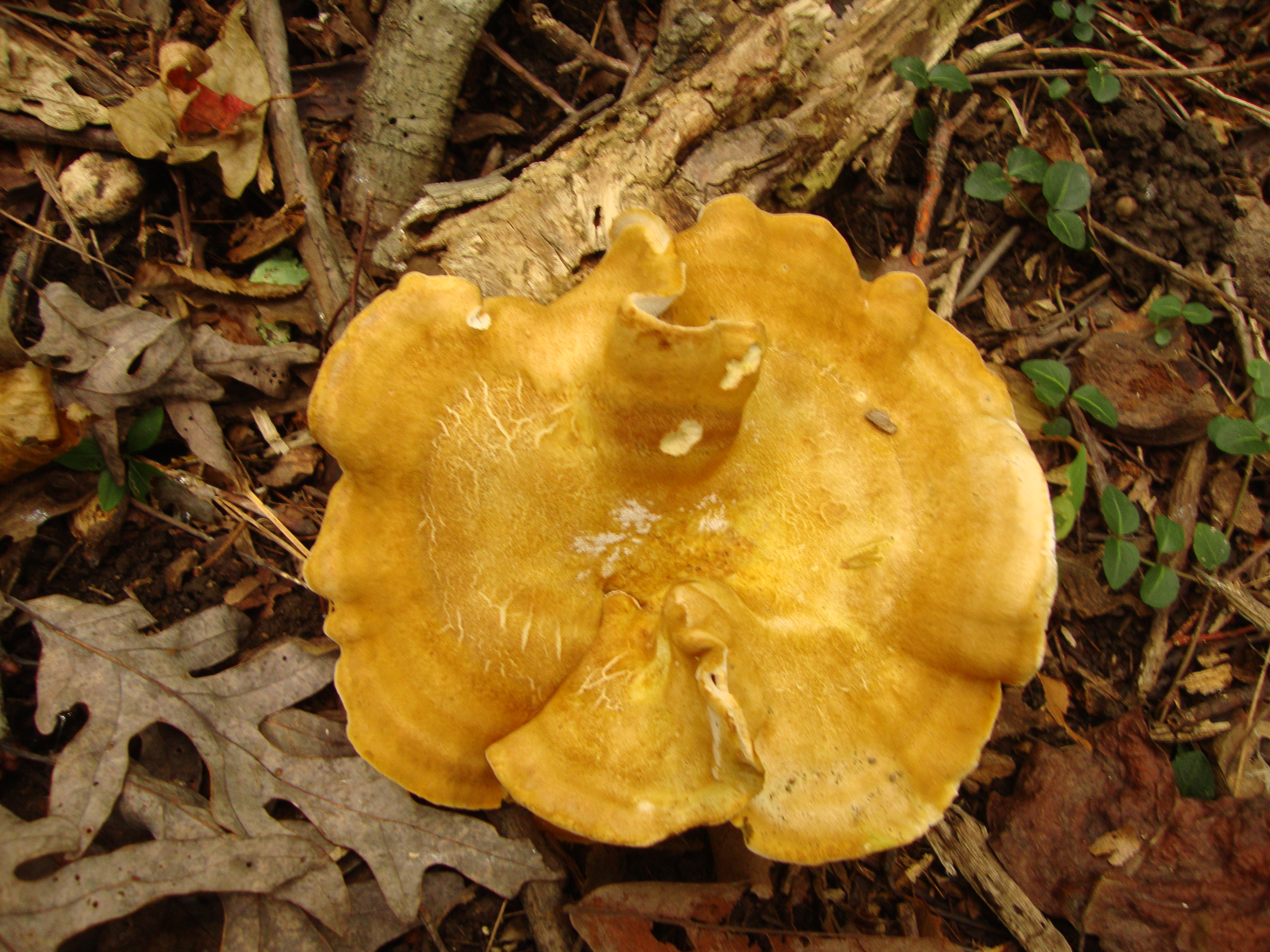 Albatrellus cristatus (Schaeff) Kotl.Pouzar Image location: The Rock Creek Regional Park, Montgomery Co., Maryland, USA Today is the first time I have come across an Albatrellus, so I am very uncertain of the species designation. There was some blue-green staining on an older specimen. Site was beech, oak, tulip forest near a lake. Recognized by sight For more information about this, see the observation page at Mushroom Observer.